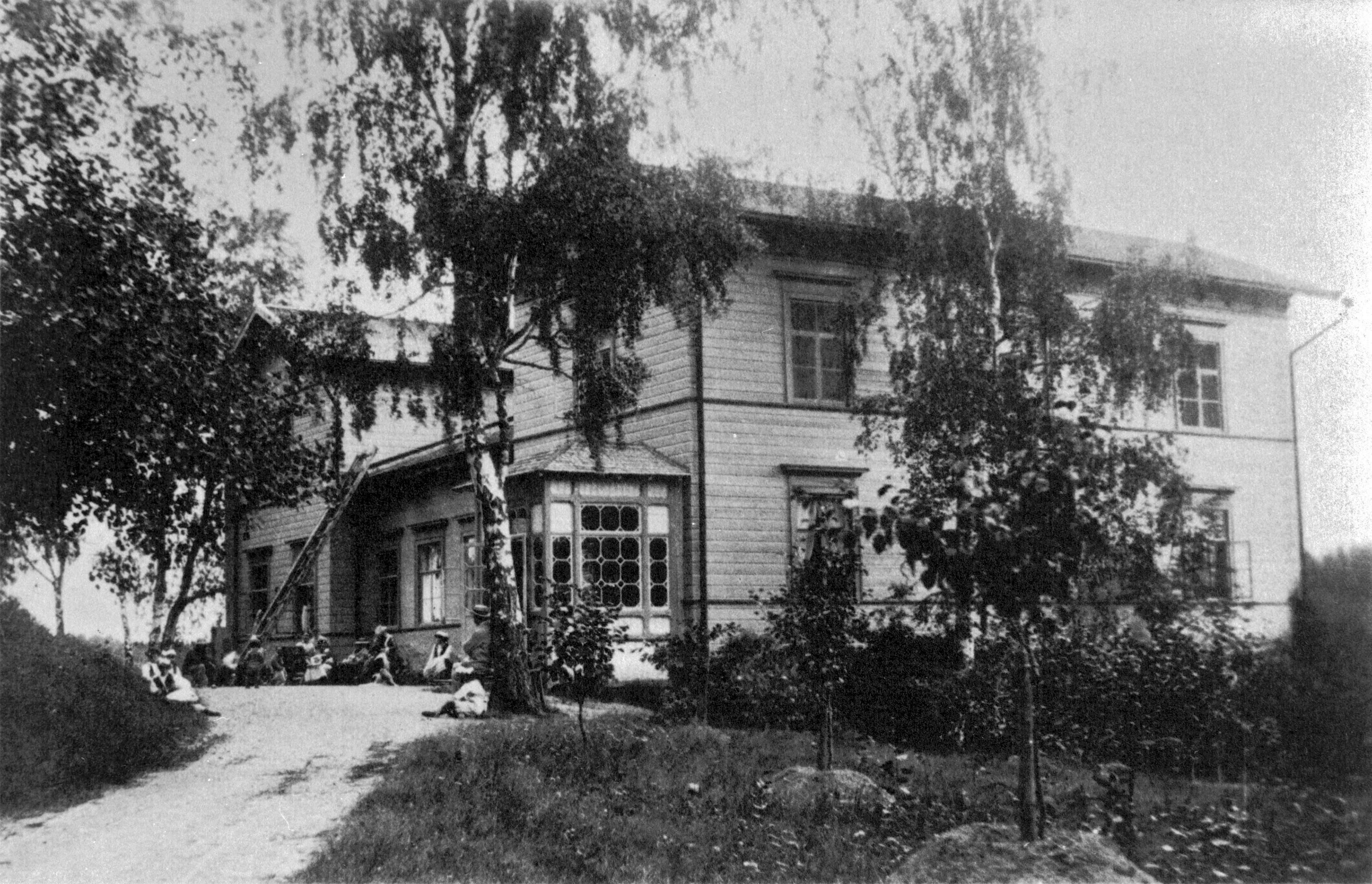 Björkudden, stora villan, 1879. slsa801_134 Zacharias Topelius Skrifter Svenska litteratursällskapet i Finland